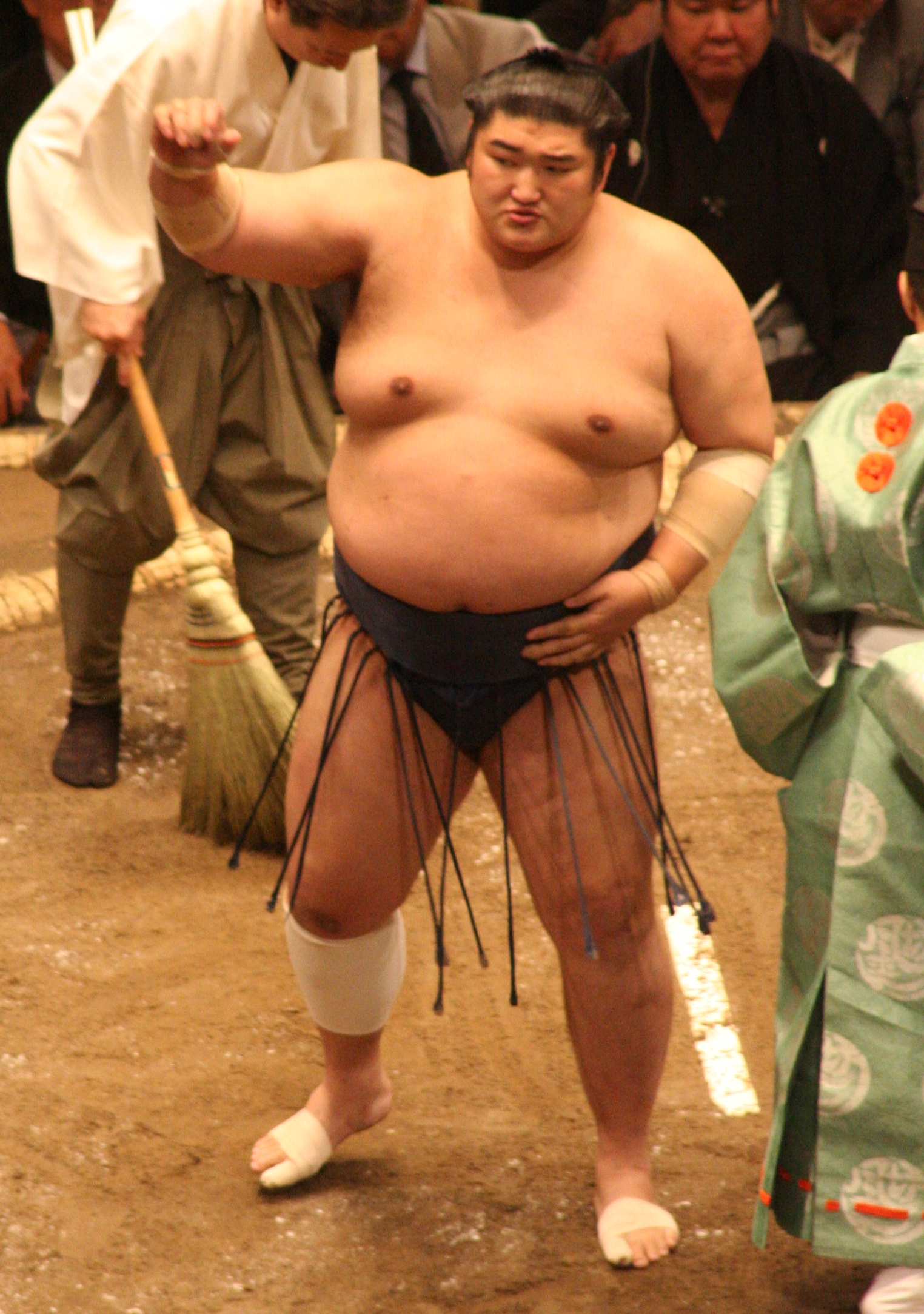 First day of 2009 May Sumo Tournament in Tokyo, Japan - Kotomitsuki